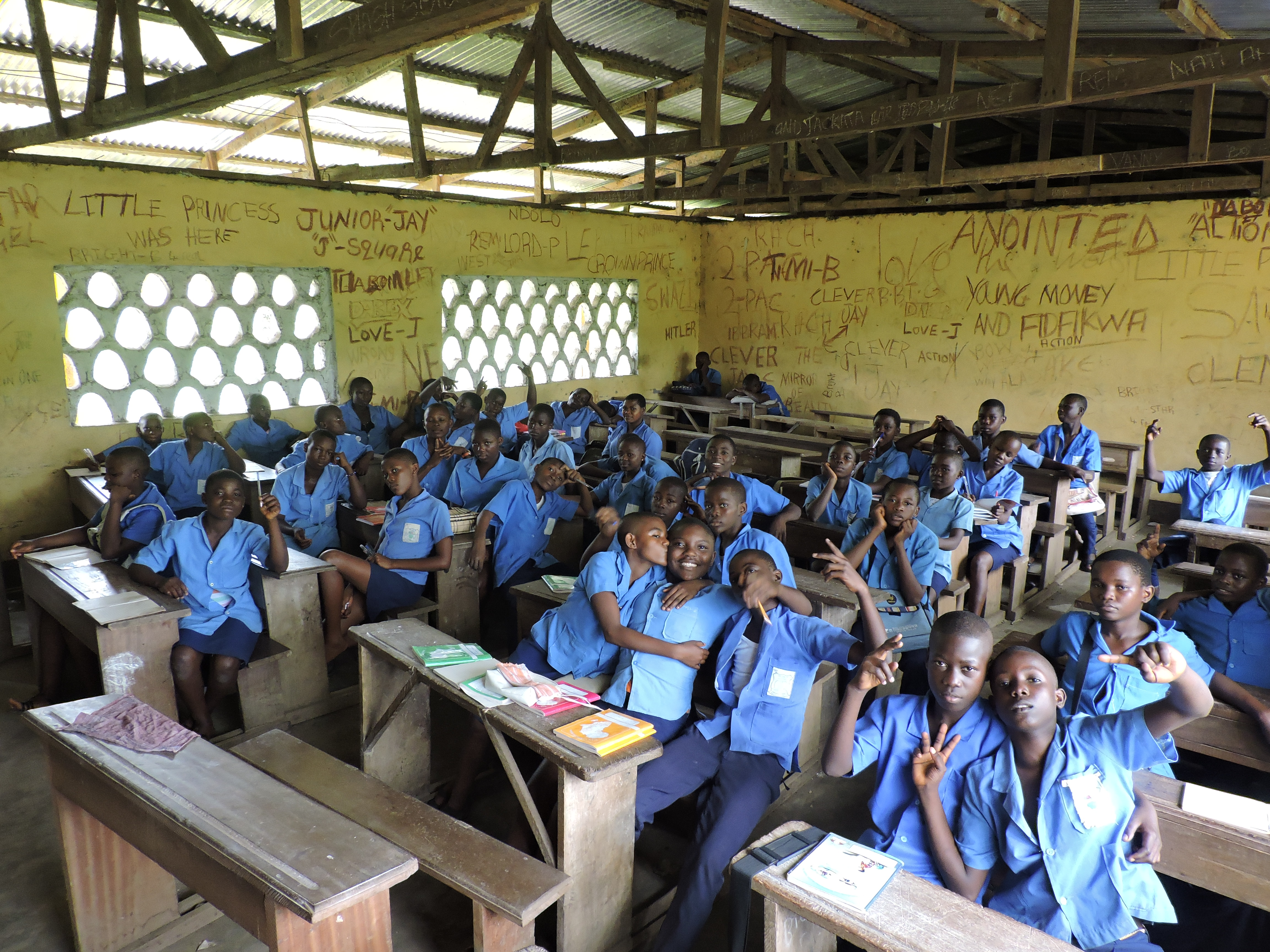 These are students in Form 3 (8th grade equivalent) at the Government High School in Ebonji, Southwest, Cameroon. This is an image of Cultural Fashion or Adornment from Cameroon